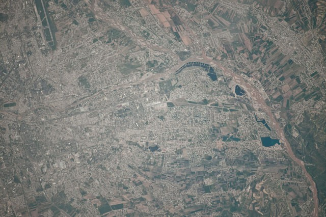 Astronaut Photo of Dushanbe, Tajikistan taken from the International Space Station (ISS) during Expedition 23 on April 6, 2010.